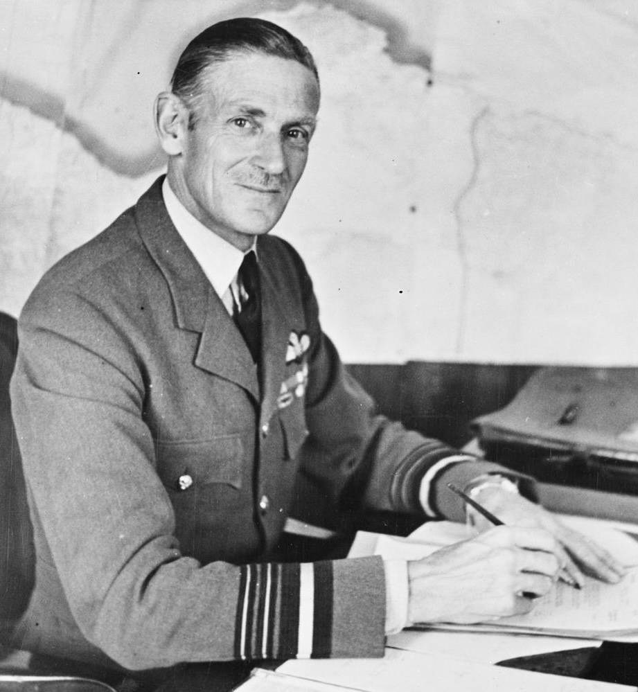 Royal Air Force Air Marshal Sir Keith Park, Commander of 11 Group seated at his desk. The photograph taken when he was made Air Officer Commanding in Chief Middle East Air Forces.